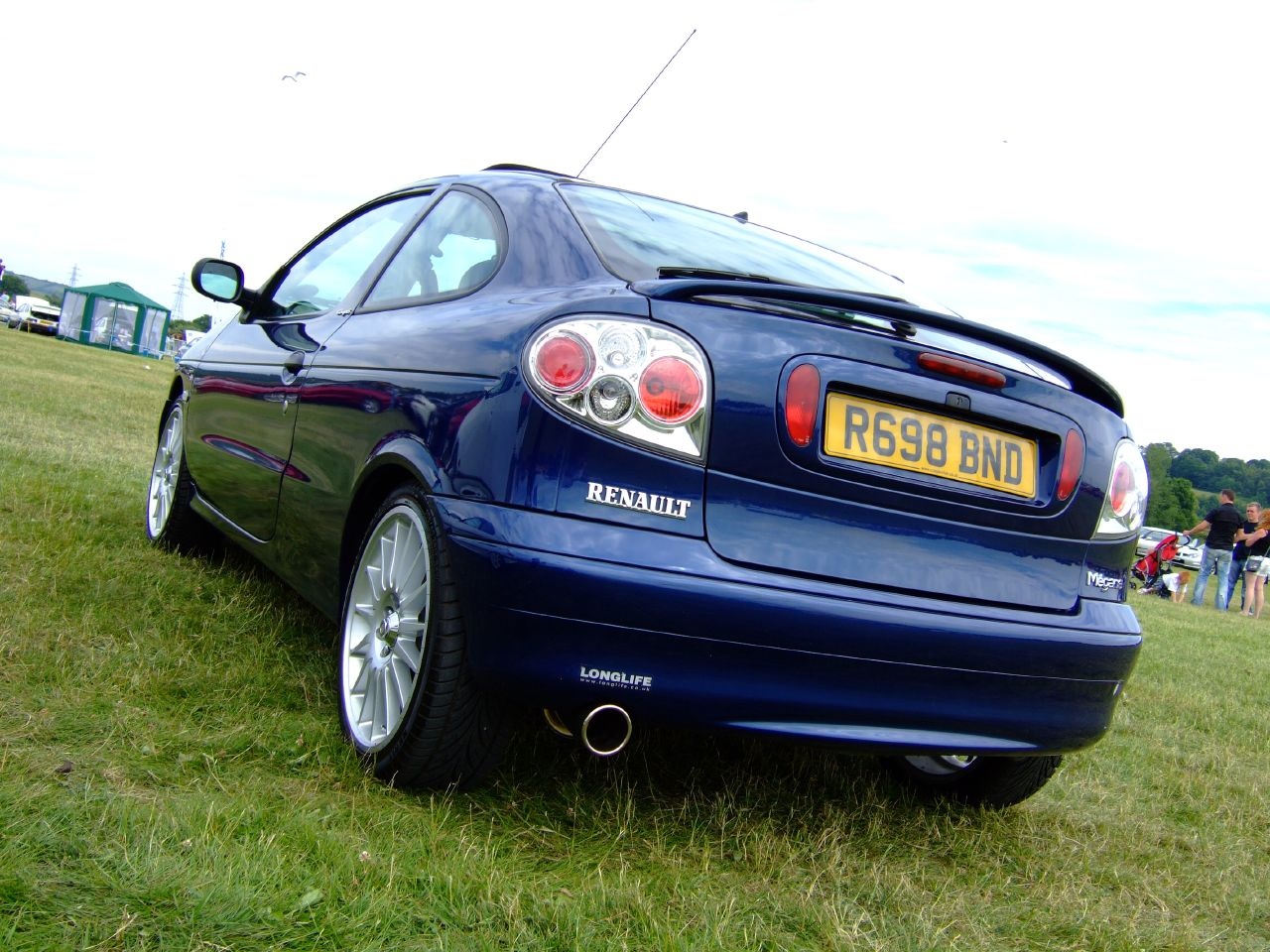 Renault Mégane Coupé